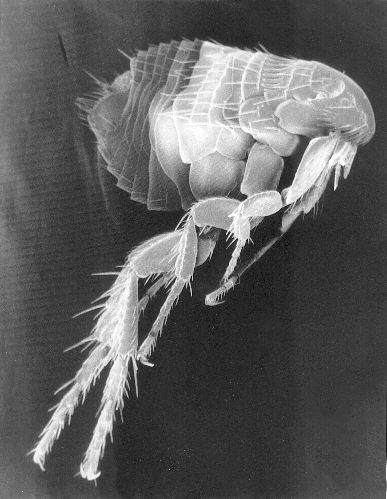 Scanning Electron Micrograph of a Flea. See below for a colorized version of this image. Fleas are known to carry a number of diseases that are transferable to human beings through their bites. Included in this infections is the plague, caused by the bacterium Yersinia pestis.